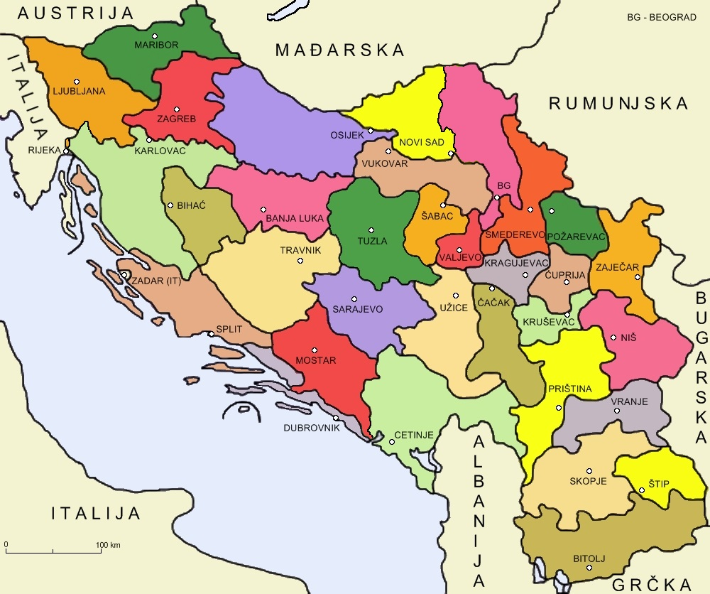 Administrative division of Kingdom of Serbs, Croats and Slovenes on 33 oblasts from 1922 to 1929.